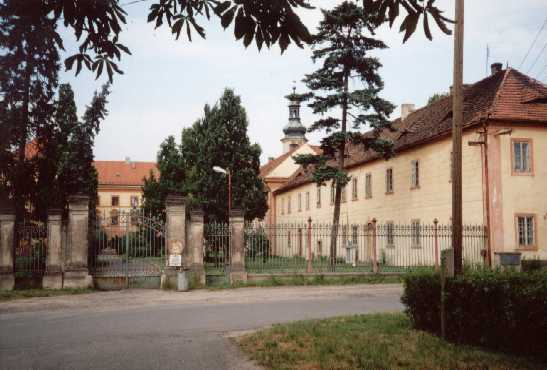 Chateau Obristvi, Middle Czechia, district Melnik